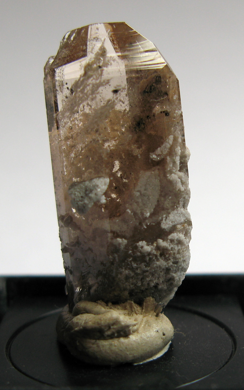 Topaz from Utah/USA